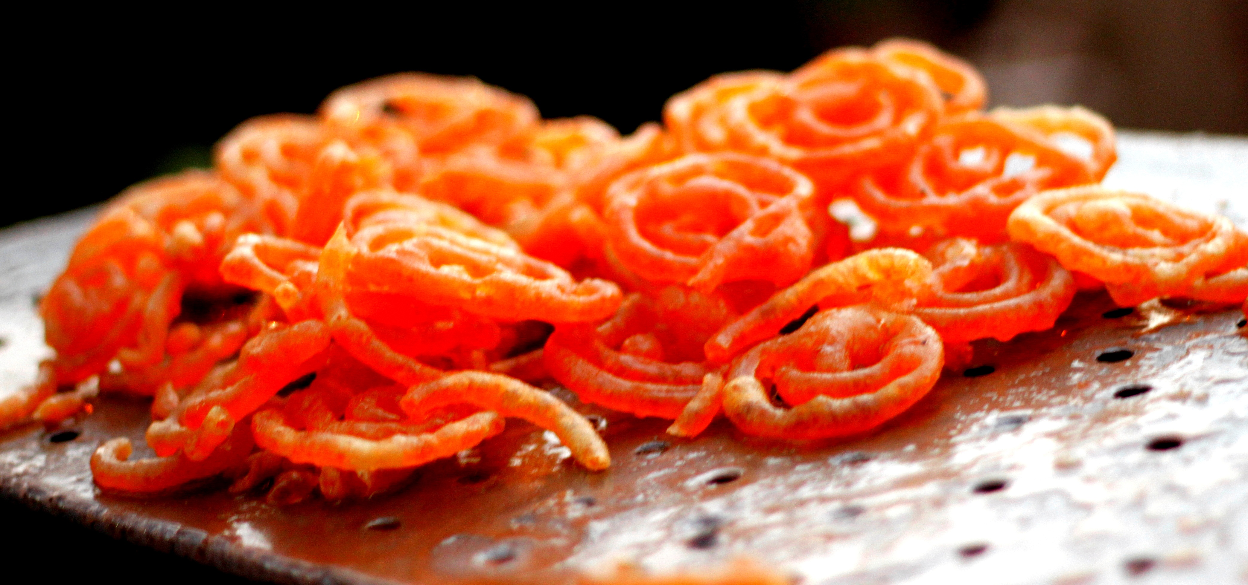 It is Pakistan's most favorite traditional dessert.